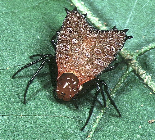 Micrathena clypeata from Ecuador.